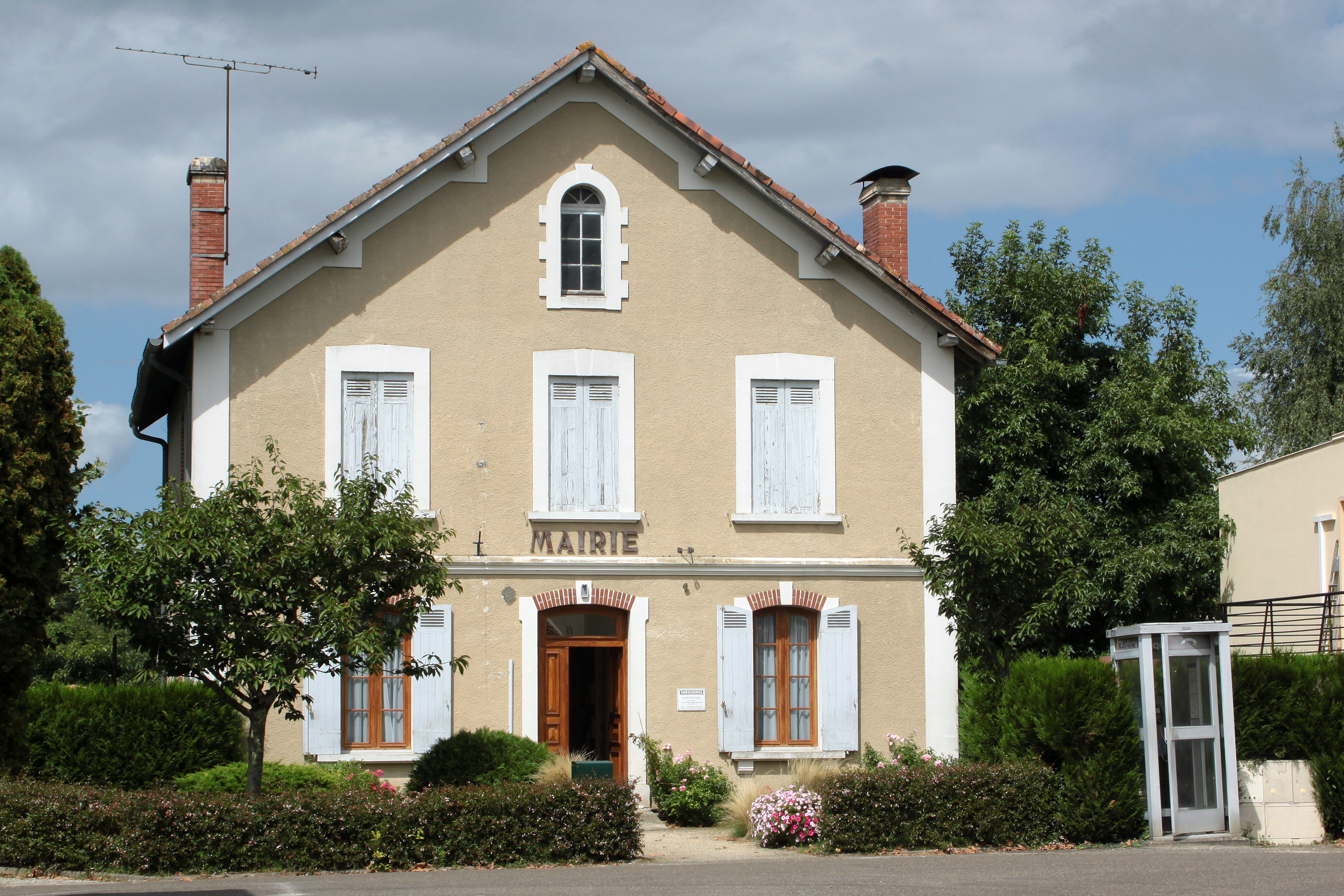 Townhall of Lencouacq